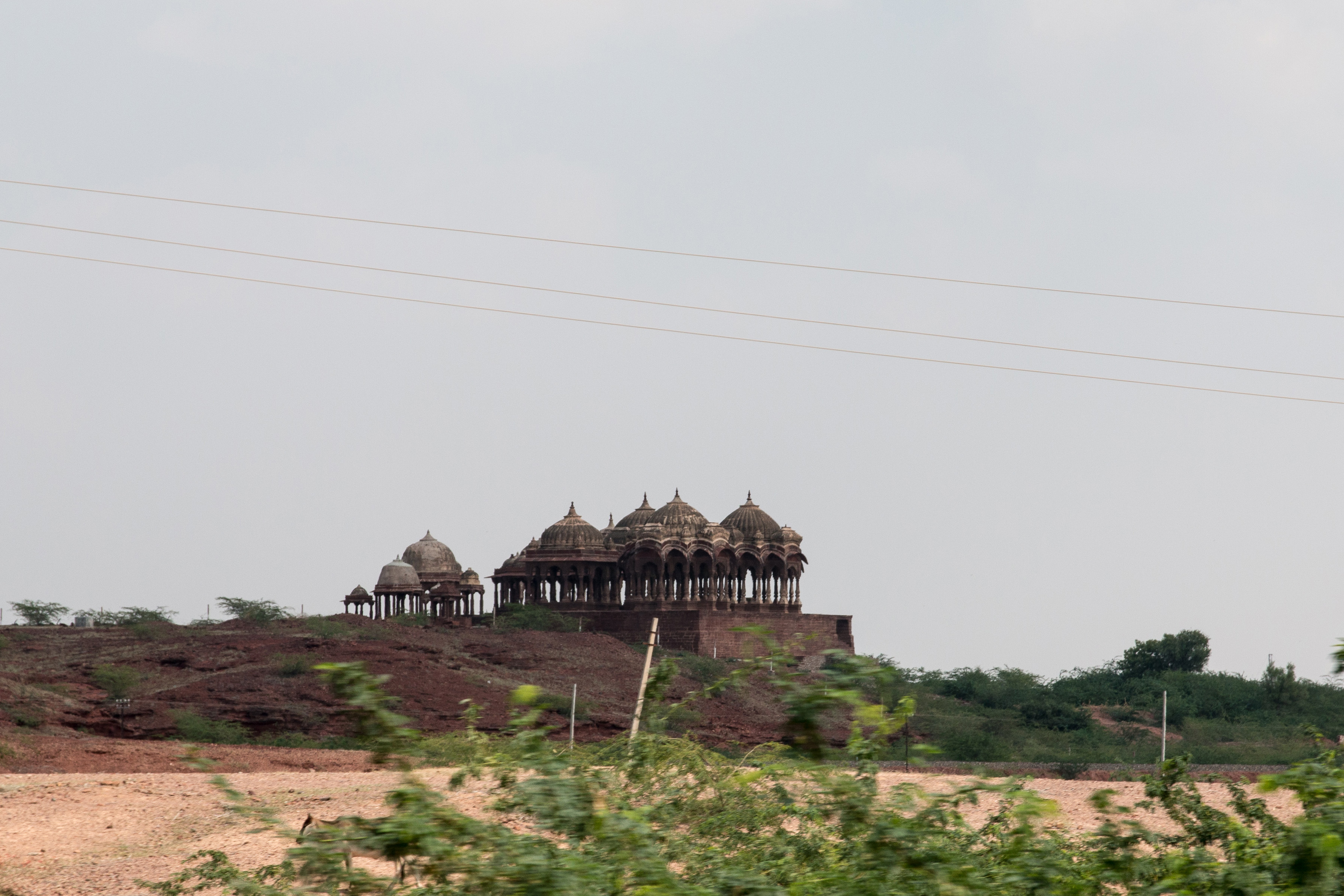 Royal cenotaphs of the Maharajahs of Pokhran.